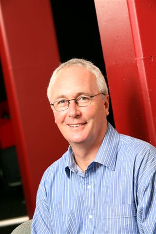 Mark Dodgson, British expert on innovation